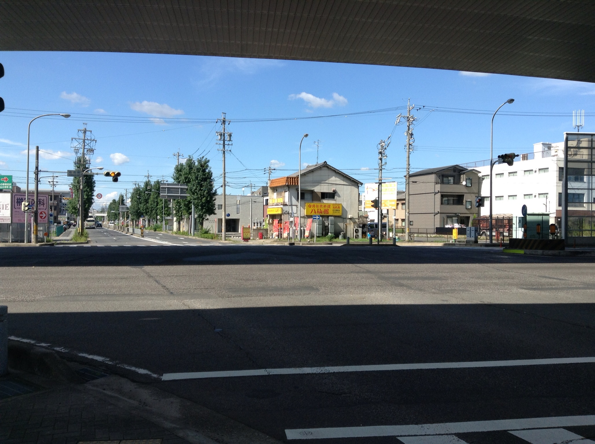 The Ikehanacho Intersection in Kita-ku, Nagoya City, Aichi Prefecture, Japan